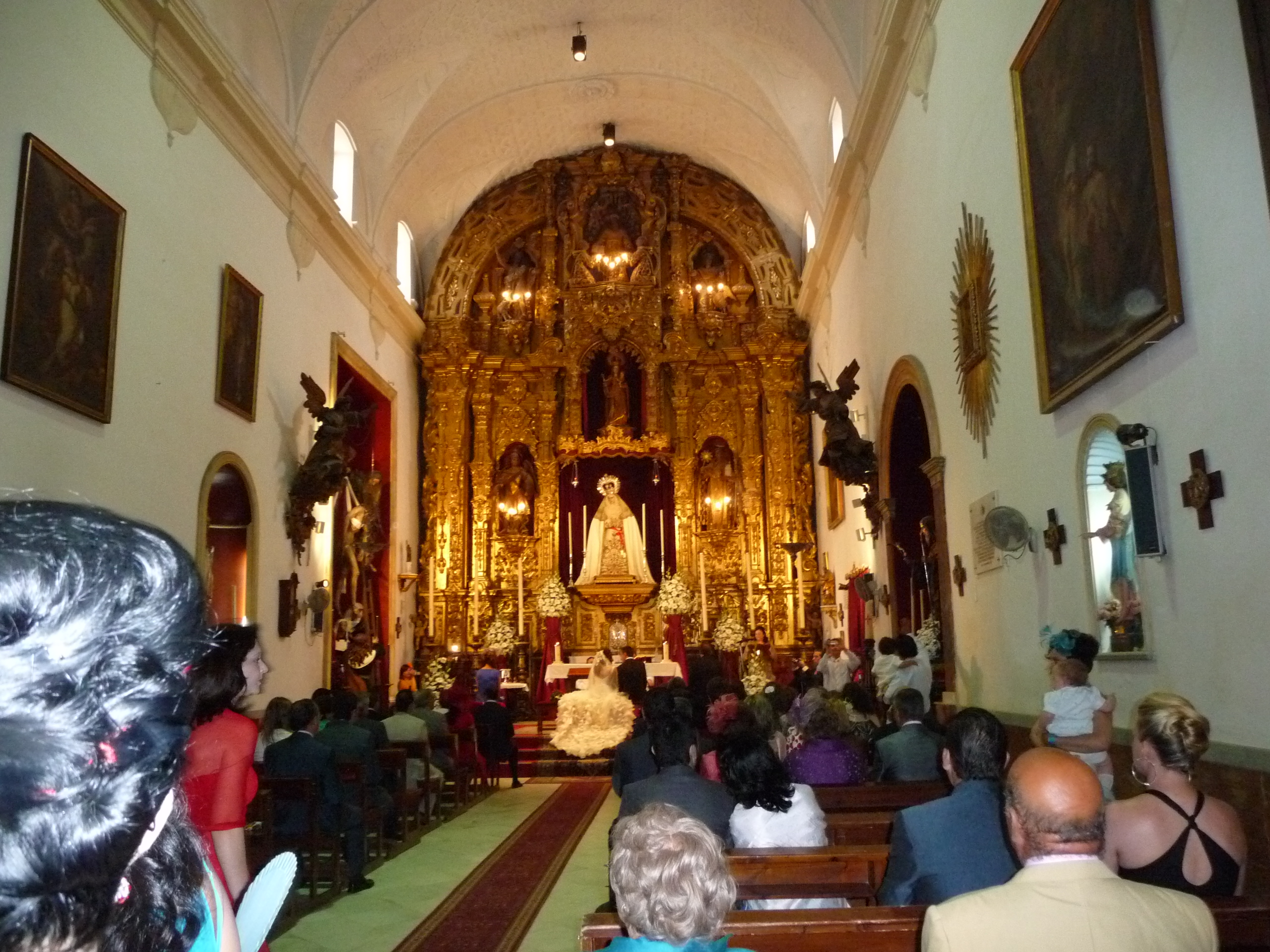 Victoria Cathlic church in Jerez de la Frontera, Spain